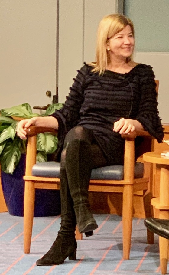 Maya MacGuineas at Dallas Federal Reserve Bank Forum on January 16, 2019.